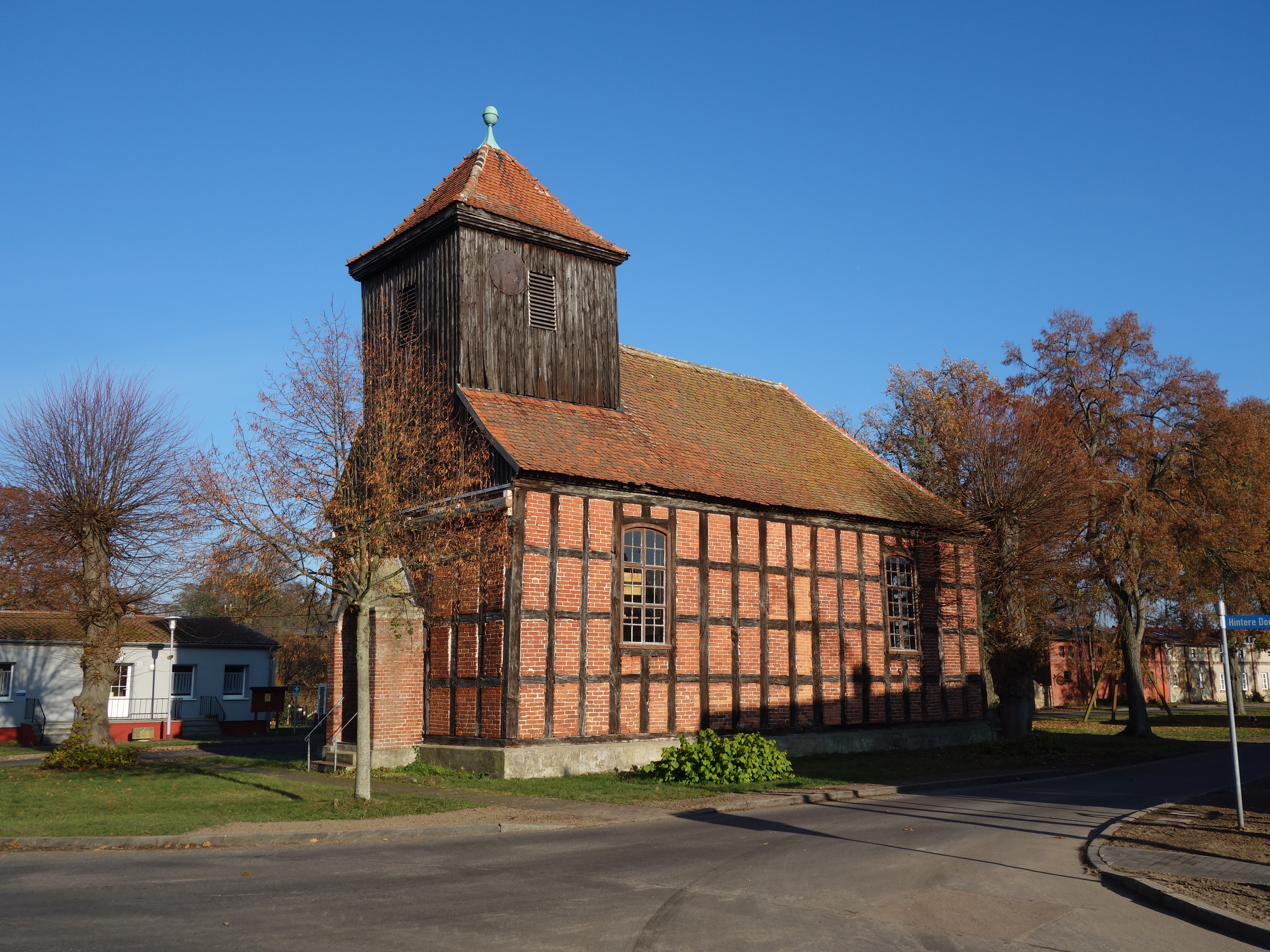 South-western view of church in Wolsier, Havelaue municipality, Havelland district, Brandenburg state, Germany